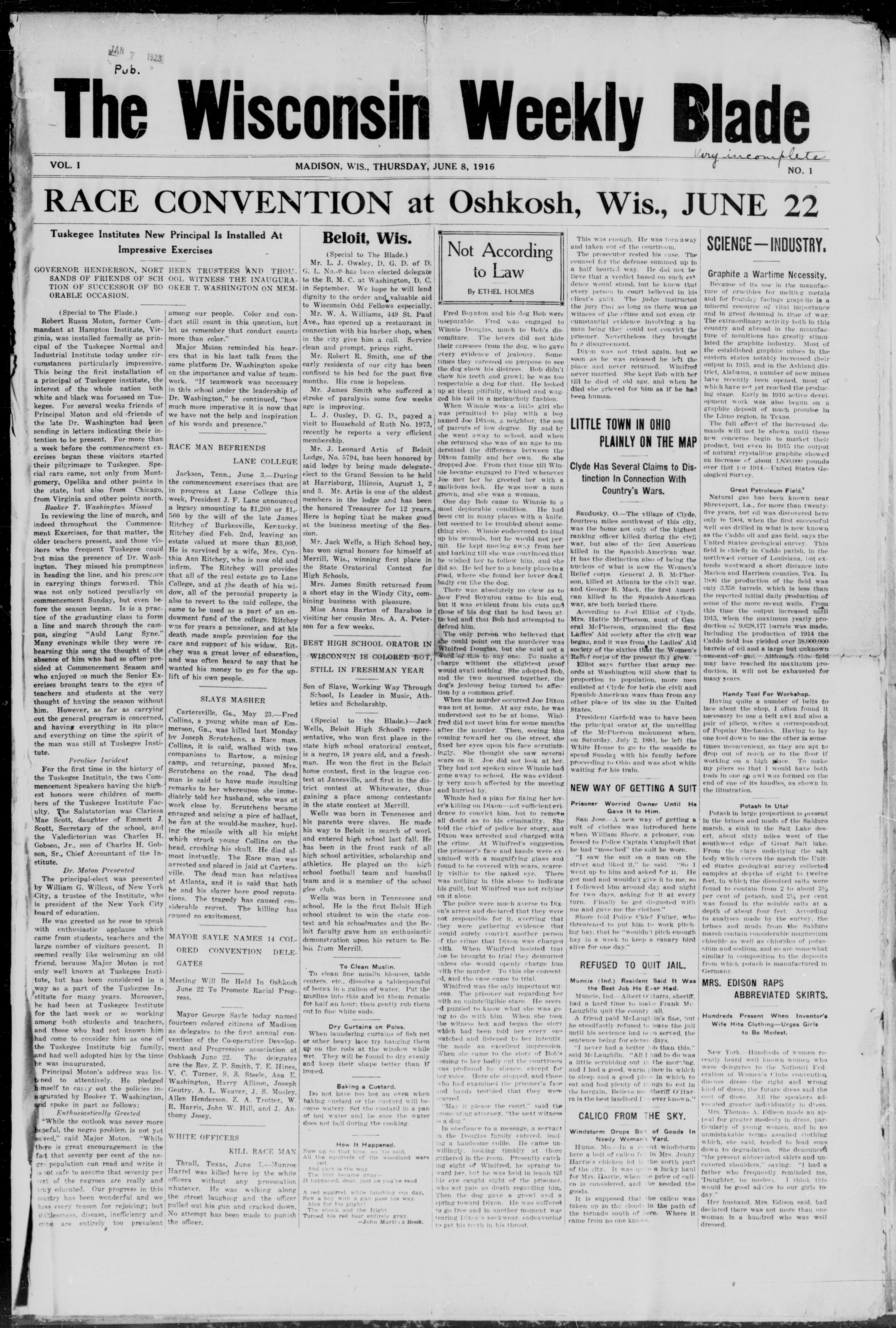 Front page of the inaugural issue of the Wisconsin Weekly Blade, an early African American newspaper in Milwaukee. Left two columns are devoted to the installation of Robert Rossa Moton as the new head of the Tuskegee Institute (now Tuskegee University).